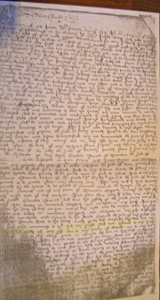 Photographer: self Date of document: 1624 Date of photograph jy 2006 Subject: Last will of Thomas Estcourt